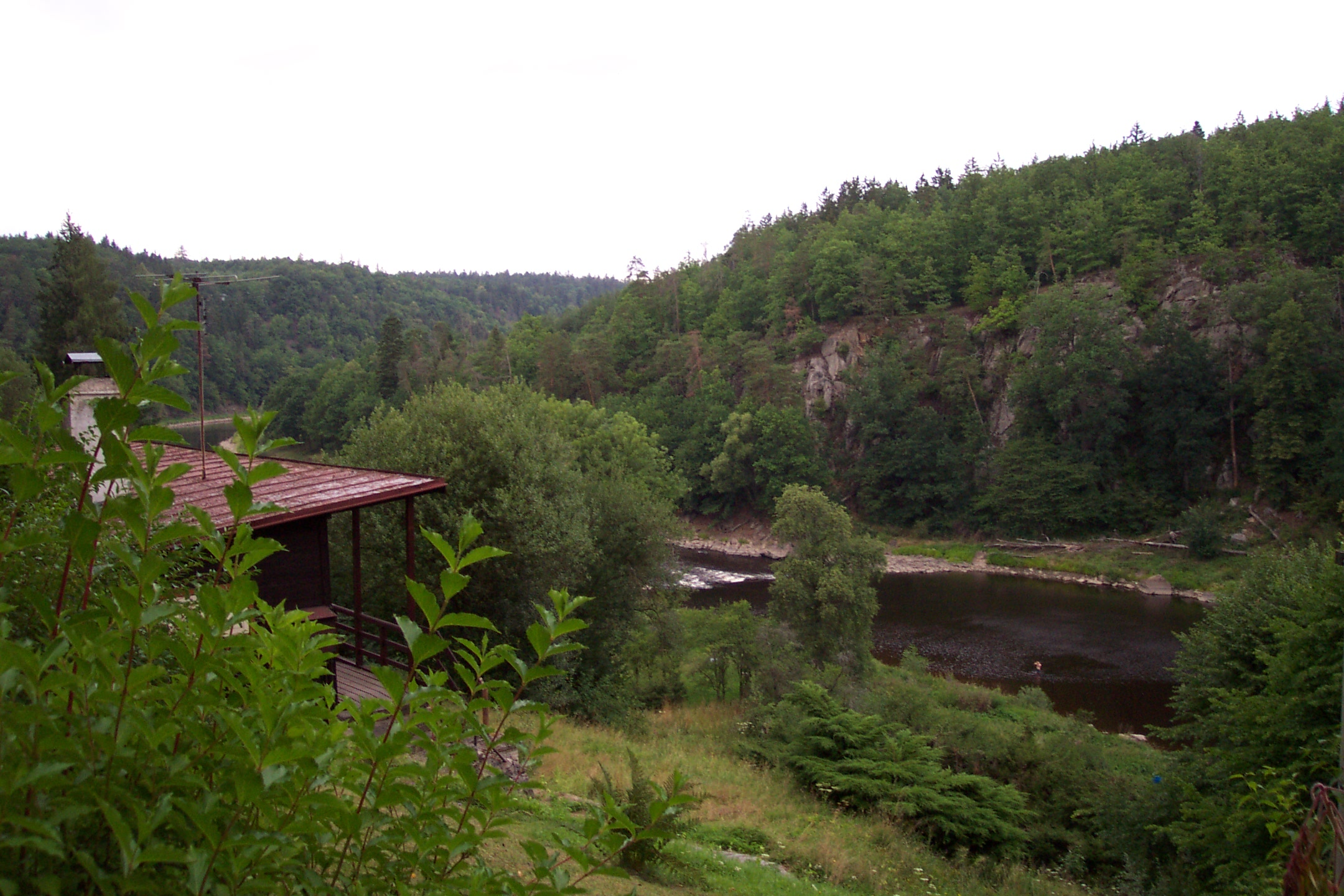 Smetiprach, part of the Čížová village, today recreational area and resort, in the past (19th and first half of 20th Century there were mills